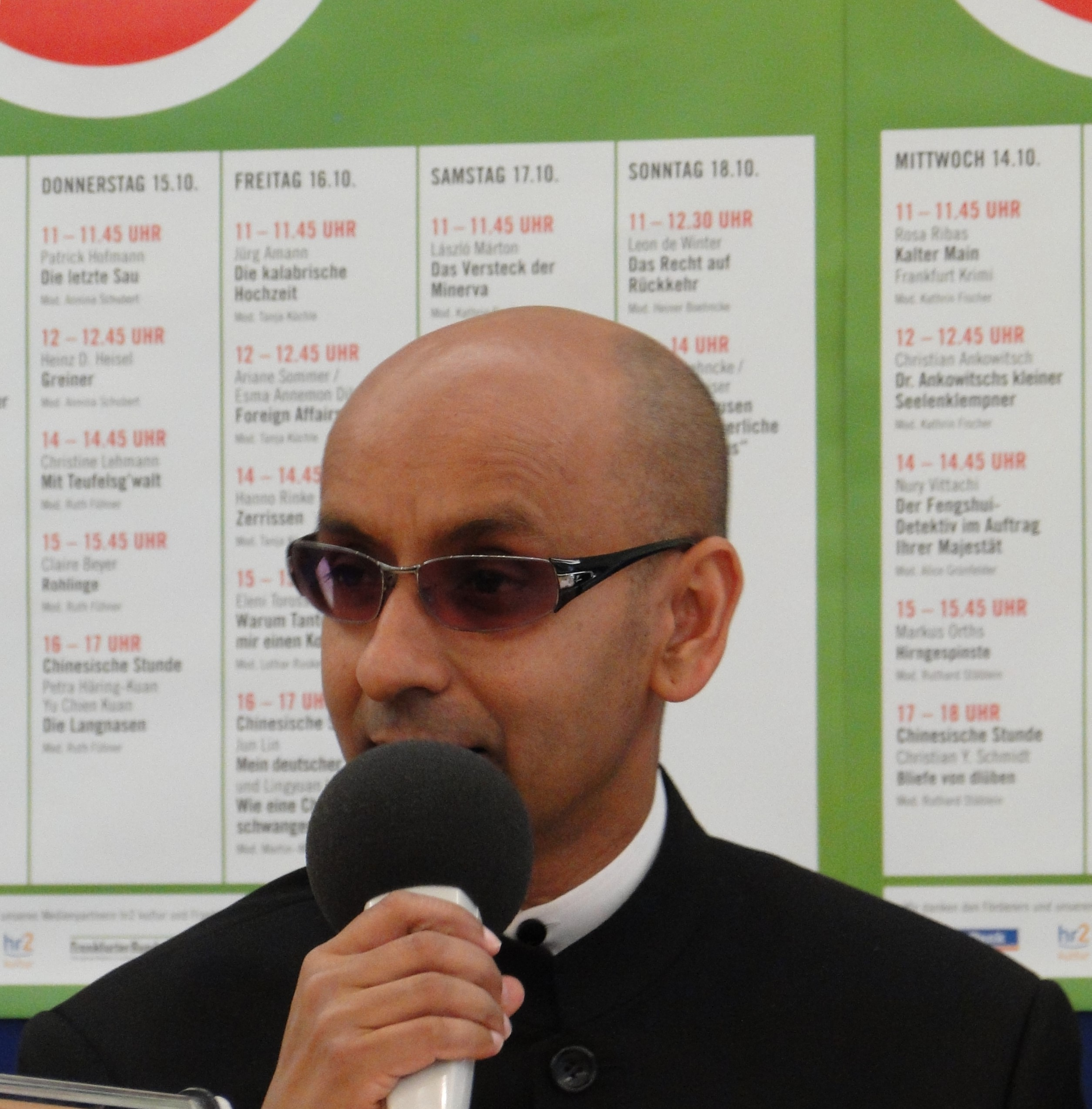 Nury Vittachi, writer from Hongkong, in Frankfurt am Main, 2009